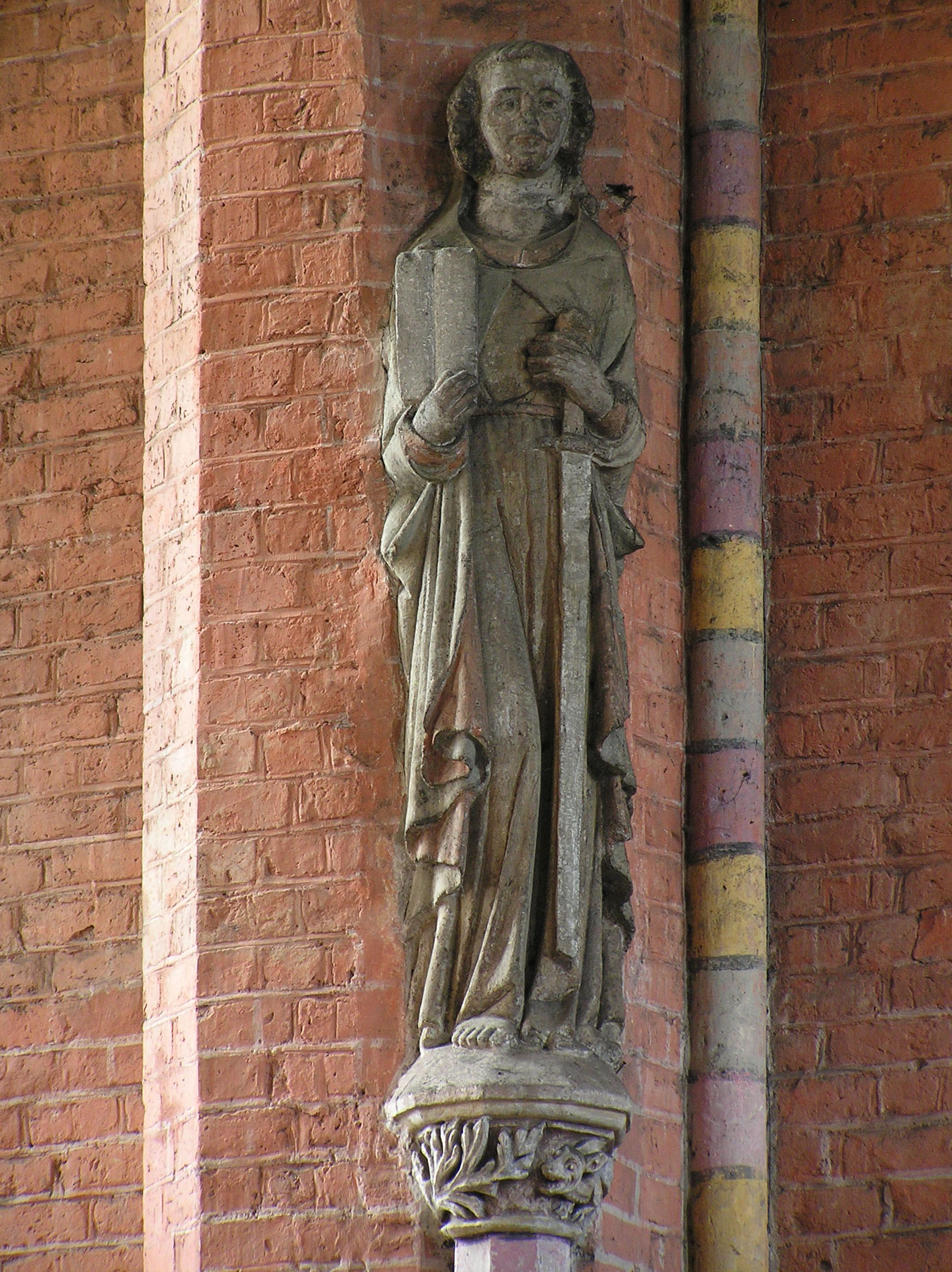 Chełmno, church of the Blessed Virgin Mary, statue of Saint Paul of Tarsus